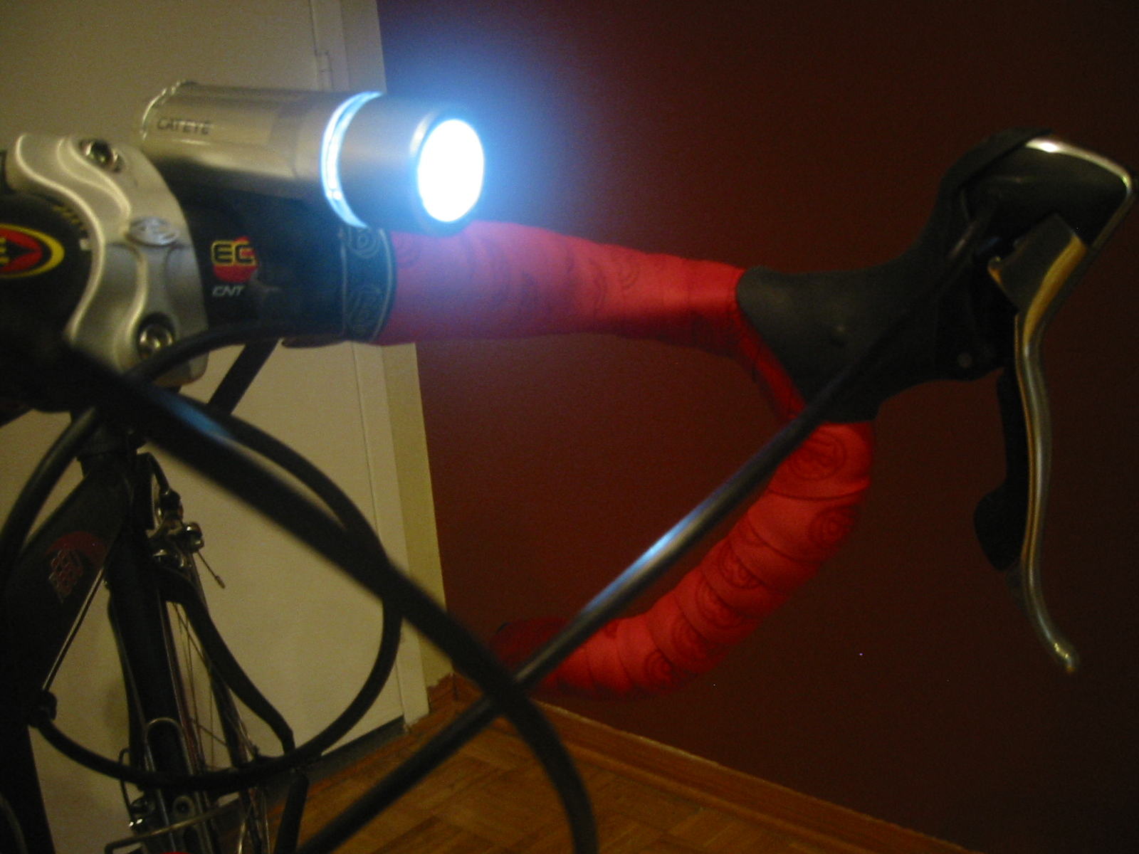 Bicycle front LED headlight